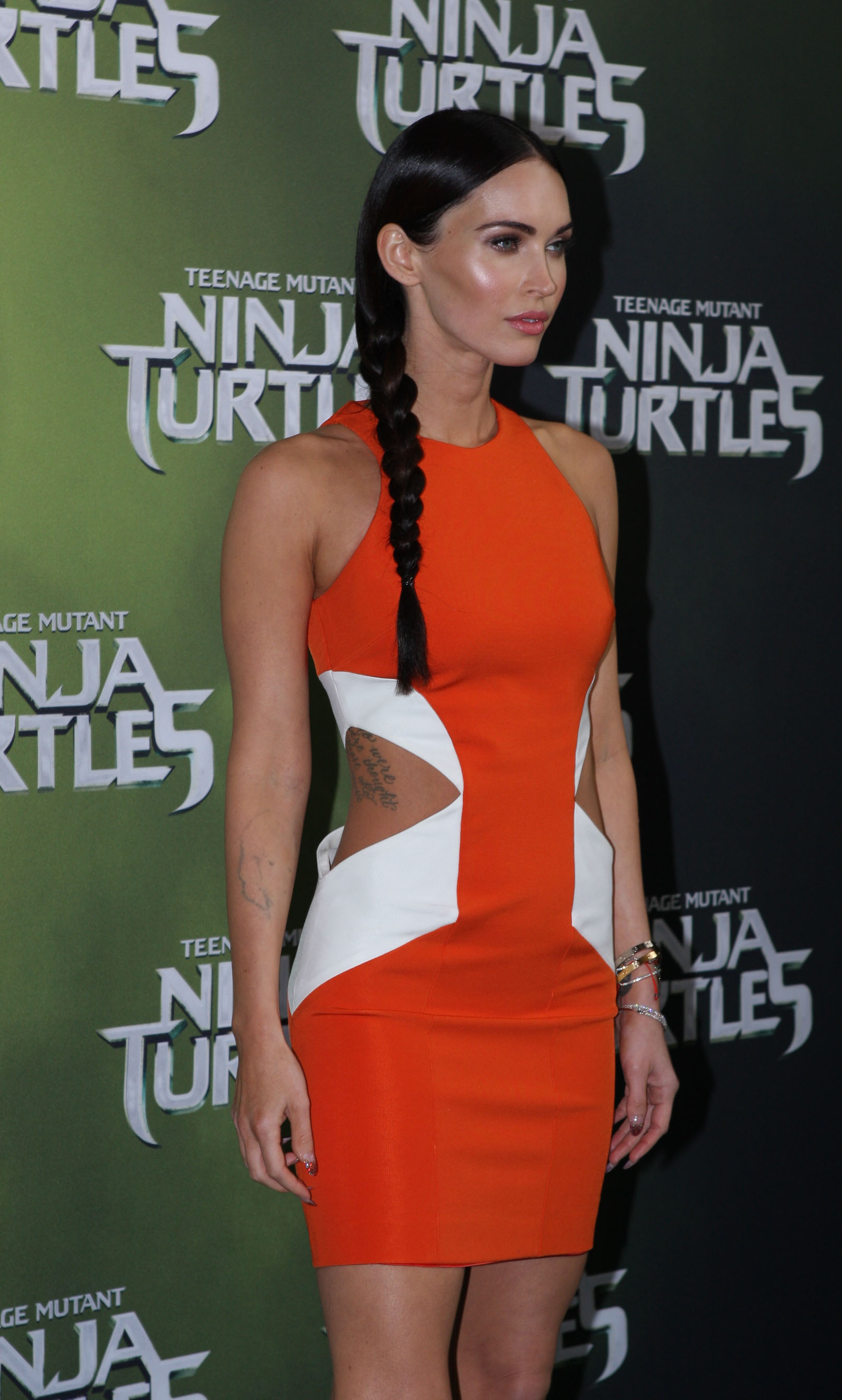 Teenage Mutant Ninja Turtles Special Event Screening - Megan Fox, Will Arnett